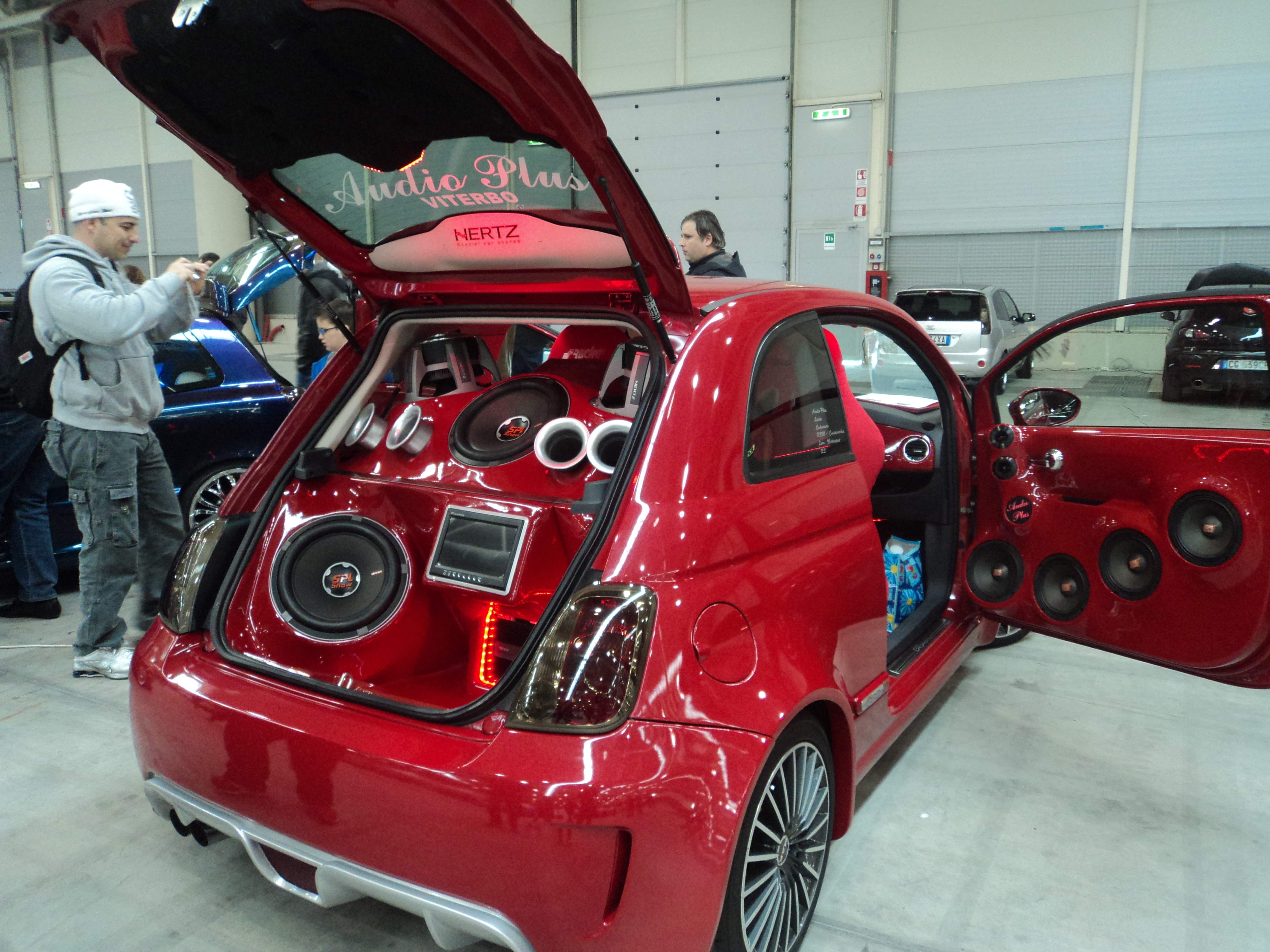 Rome Tuning Show.